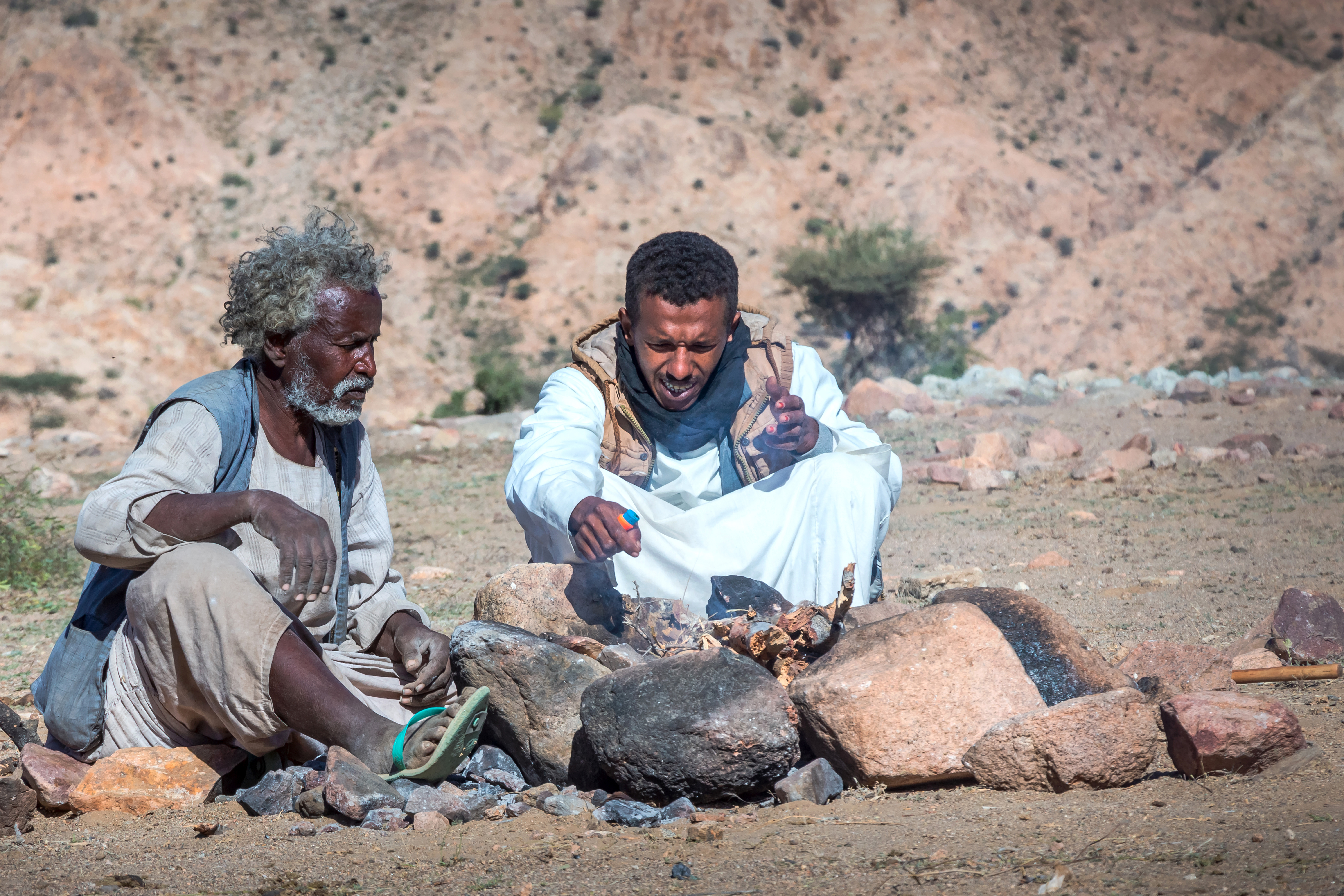 This is an image with the theme "Africa on the Move or Transport" from: Egypt